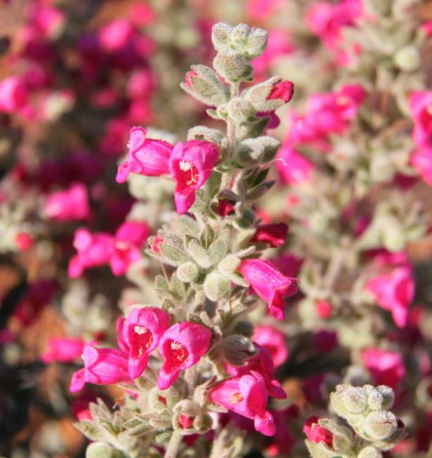 Quoya verbascina growing on the Geraldton-Mt. Magnet road, near Mullewa